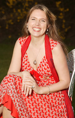 Publicity photograph of Isabel Losada.